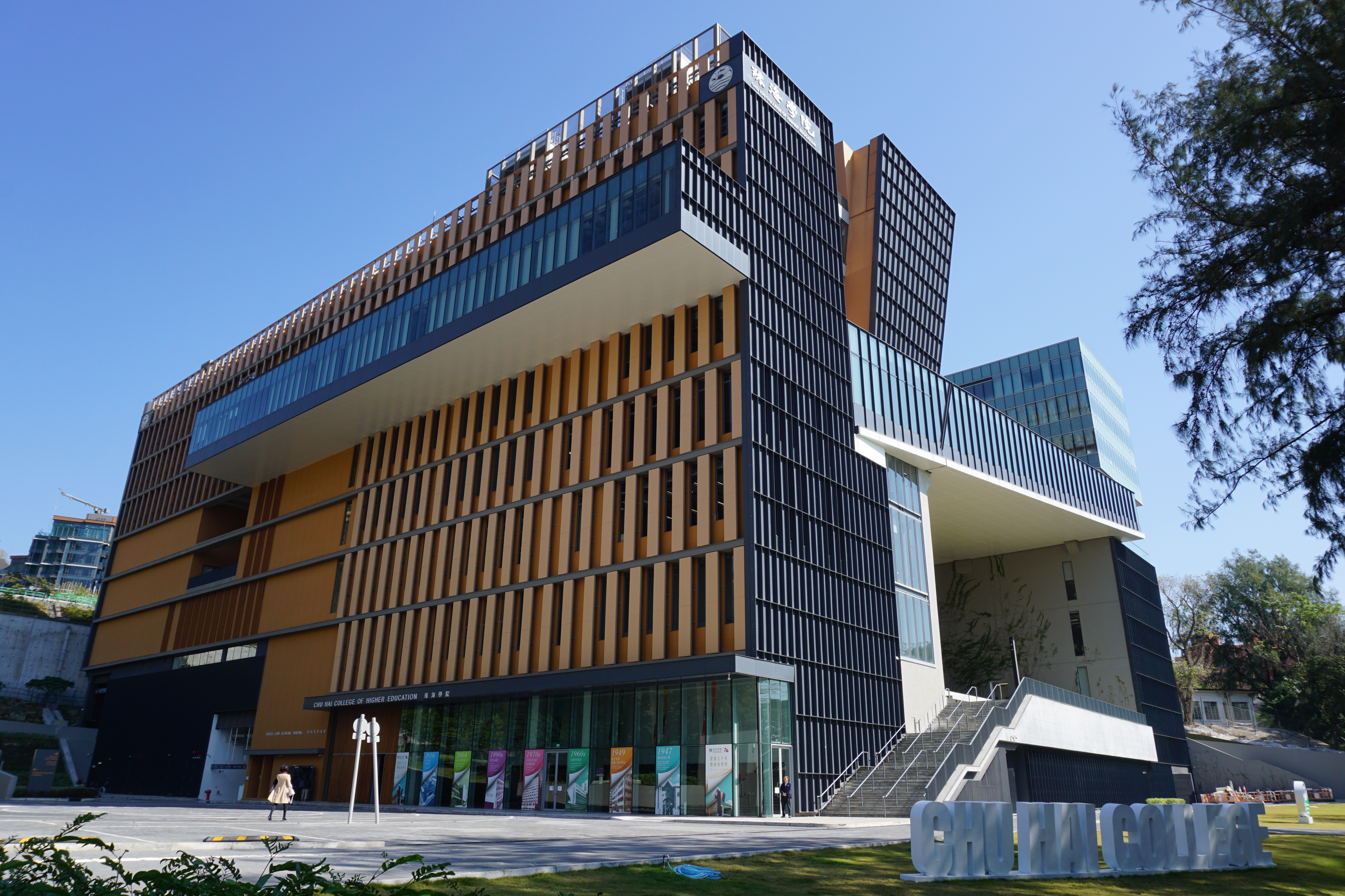 Chu Hai College in Castle Peak Bay, Hong Kong.